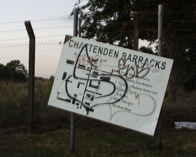 Chattenden Disused Army Barracks Closed down by the Army in the 80's... Given a new lease of life by commerce... Now again closed.